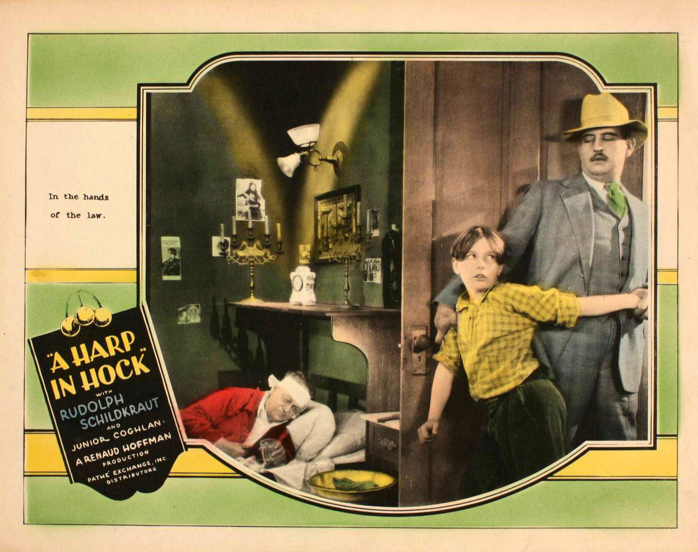 Lobby card for the American melodrama film A Harp in Hock (1927) with Rudolph Schildkraut, Frank Coghlan, Jr., and Louis Natheaux.